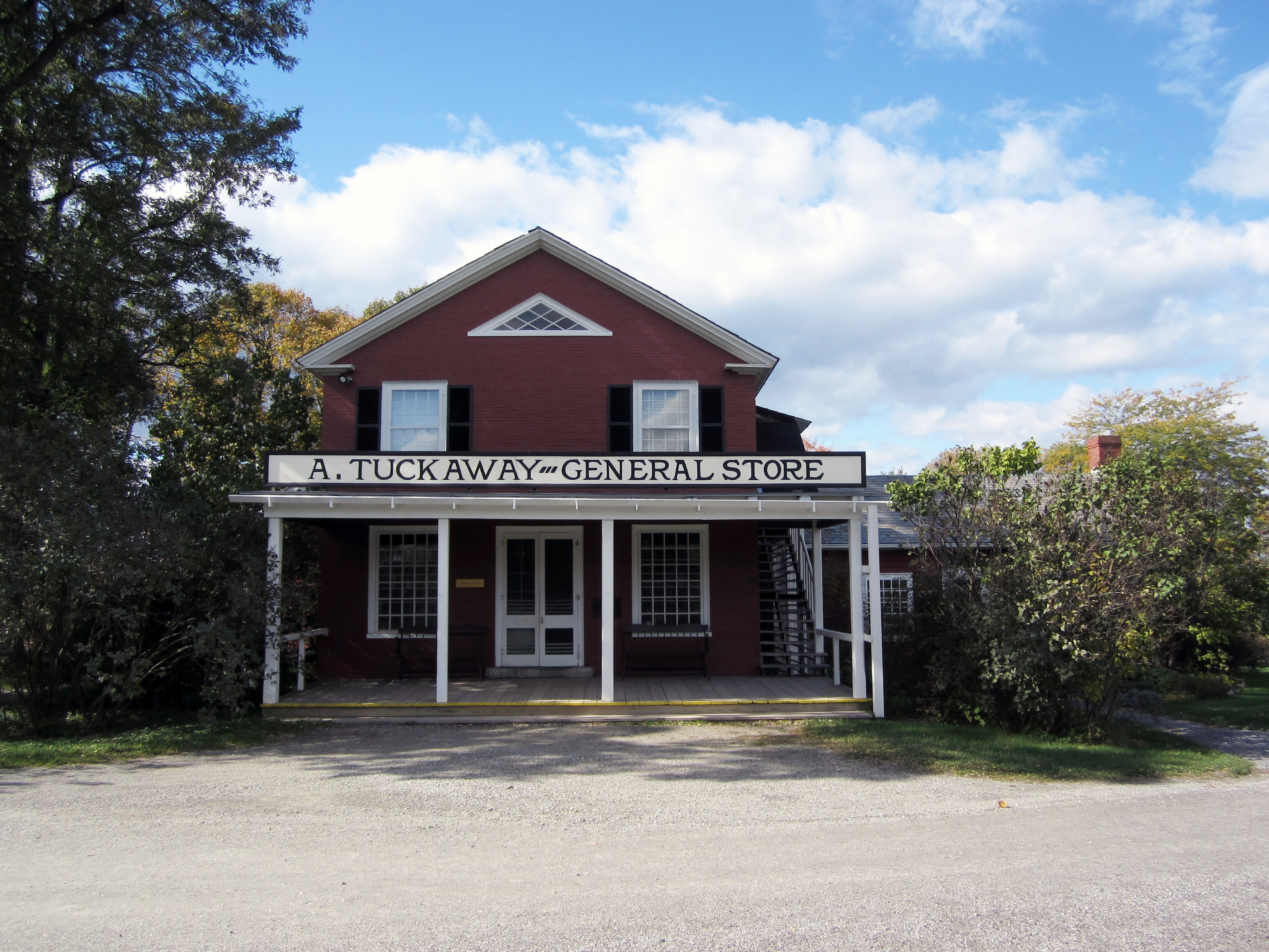 The Tuckaway General Store, an exhibit building located at the Shelburne Museum in Shelburne Vermont.